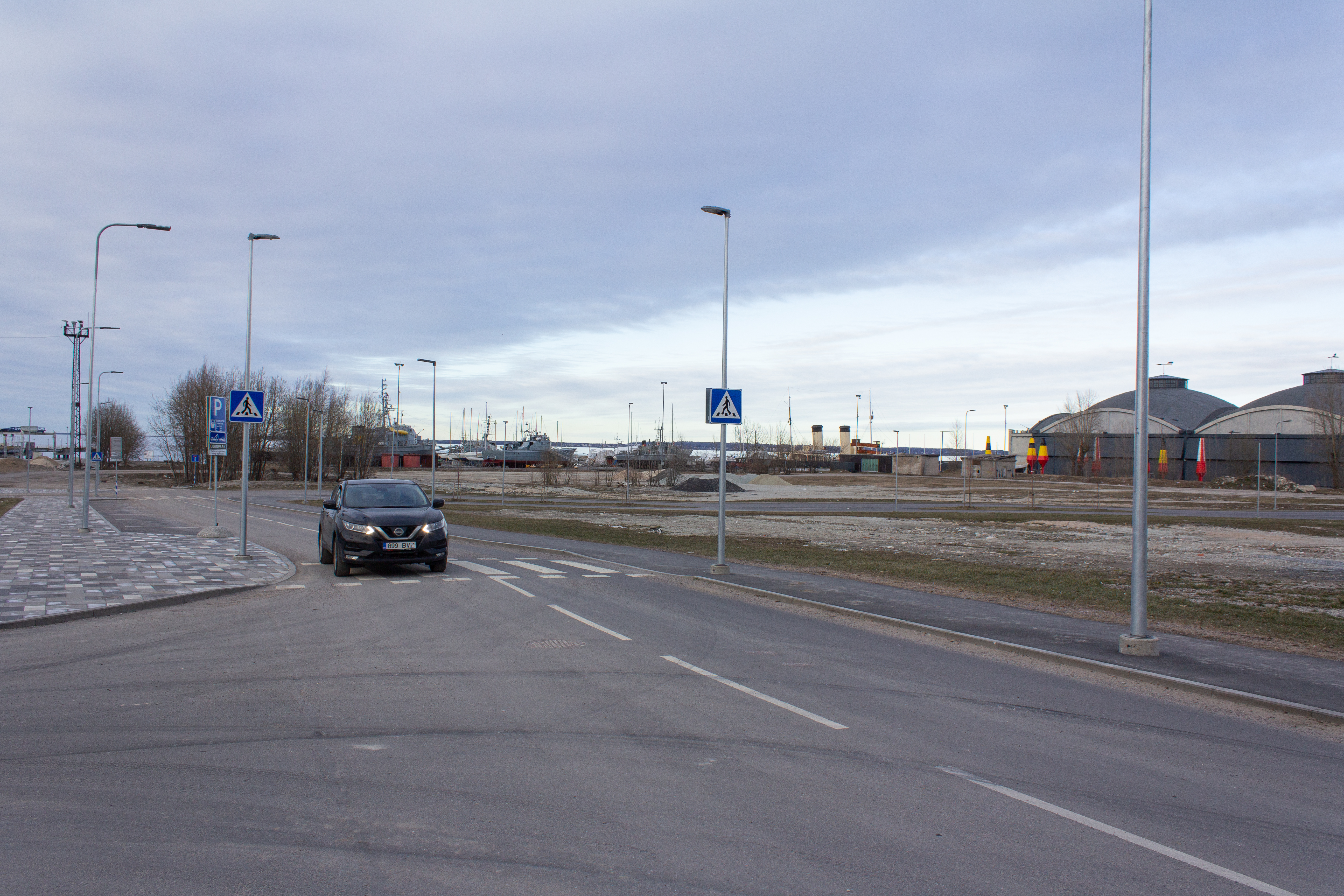 Lennusadama Street in Tallinn (Estonia), view from the crossing of Allveelaeva Street, Noblessneri Quarter, March 2019